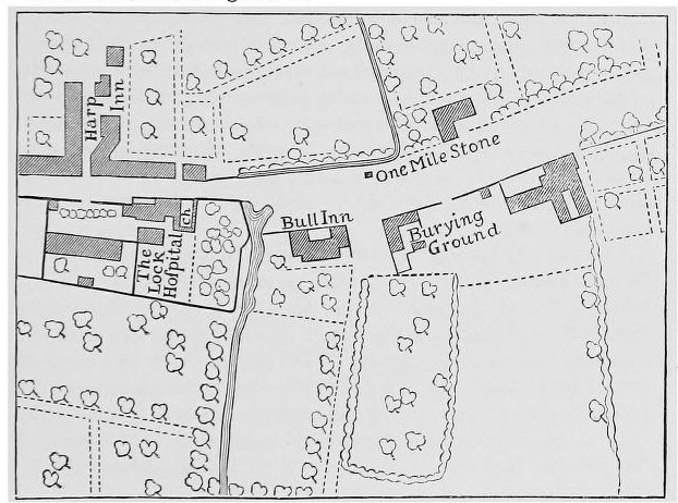 Map on page 311 of Old Southwark And Its People (1878) by William Rendle showing an area of the Old Kent Road (then Kent Street) in Southwark, London, England. It shows the location of the Lock Hospital, Harp Inn, Bull Inn, Burying Ground and One Mile Stone. The Lock Stream is shown on both sides of the Old Kent Road (the stream leading to a pool between the Hospital and Bull Inn, then reappearing as a channel on the other side). The book is on the Internet Archive